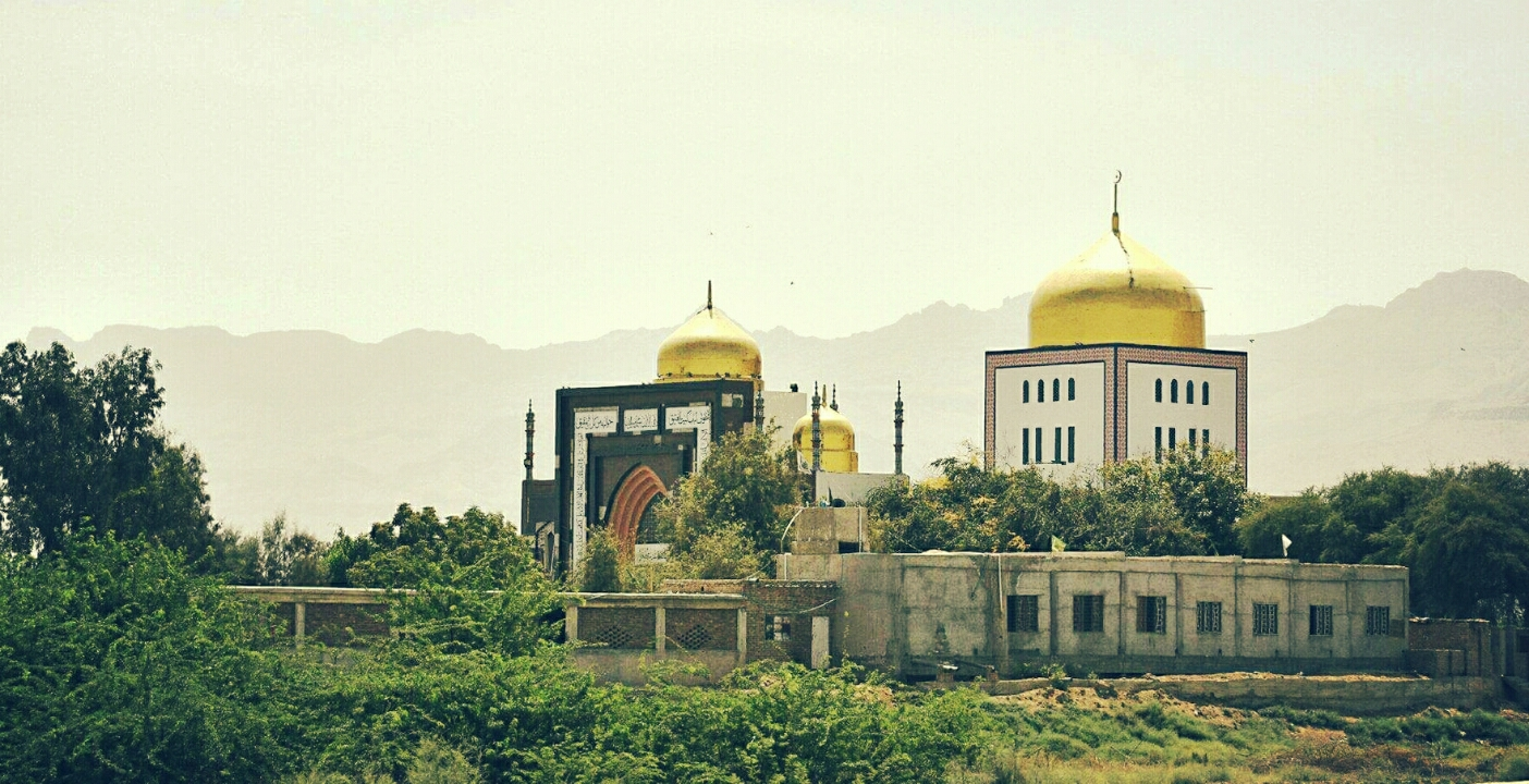 Shrine of sufi saint Lucky Shah Sadar near Lucky Shah Sadar city, Sindh. This is a photo of a monument in Pakistan identified as the SD-U-7